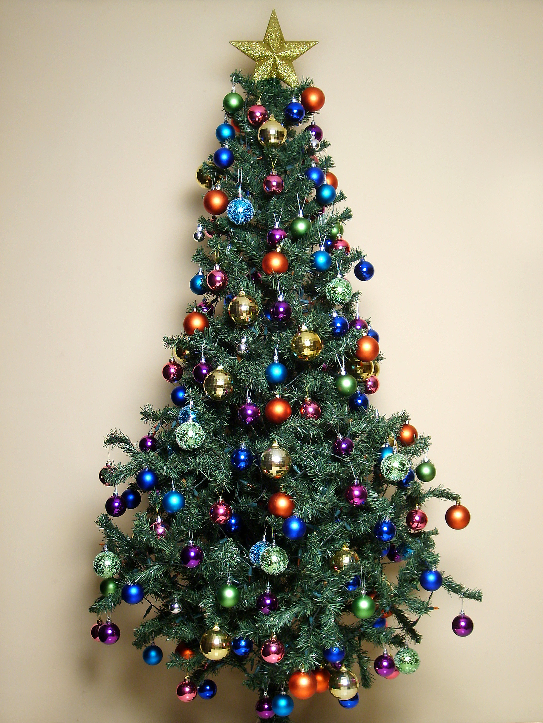 A Christmas tree.